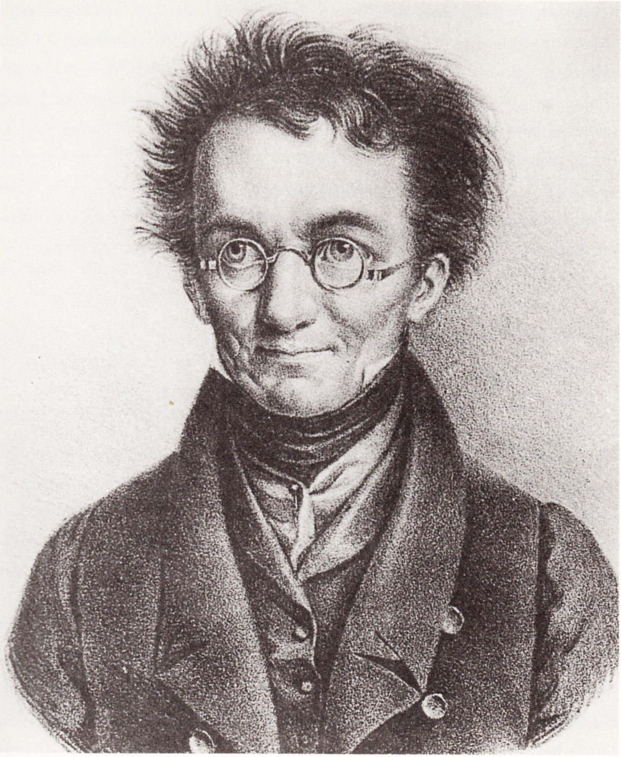 Portrait of Karl Wilhelm Salice-Contessa (1777–1825)